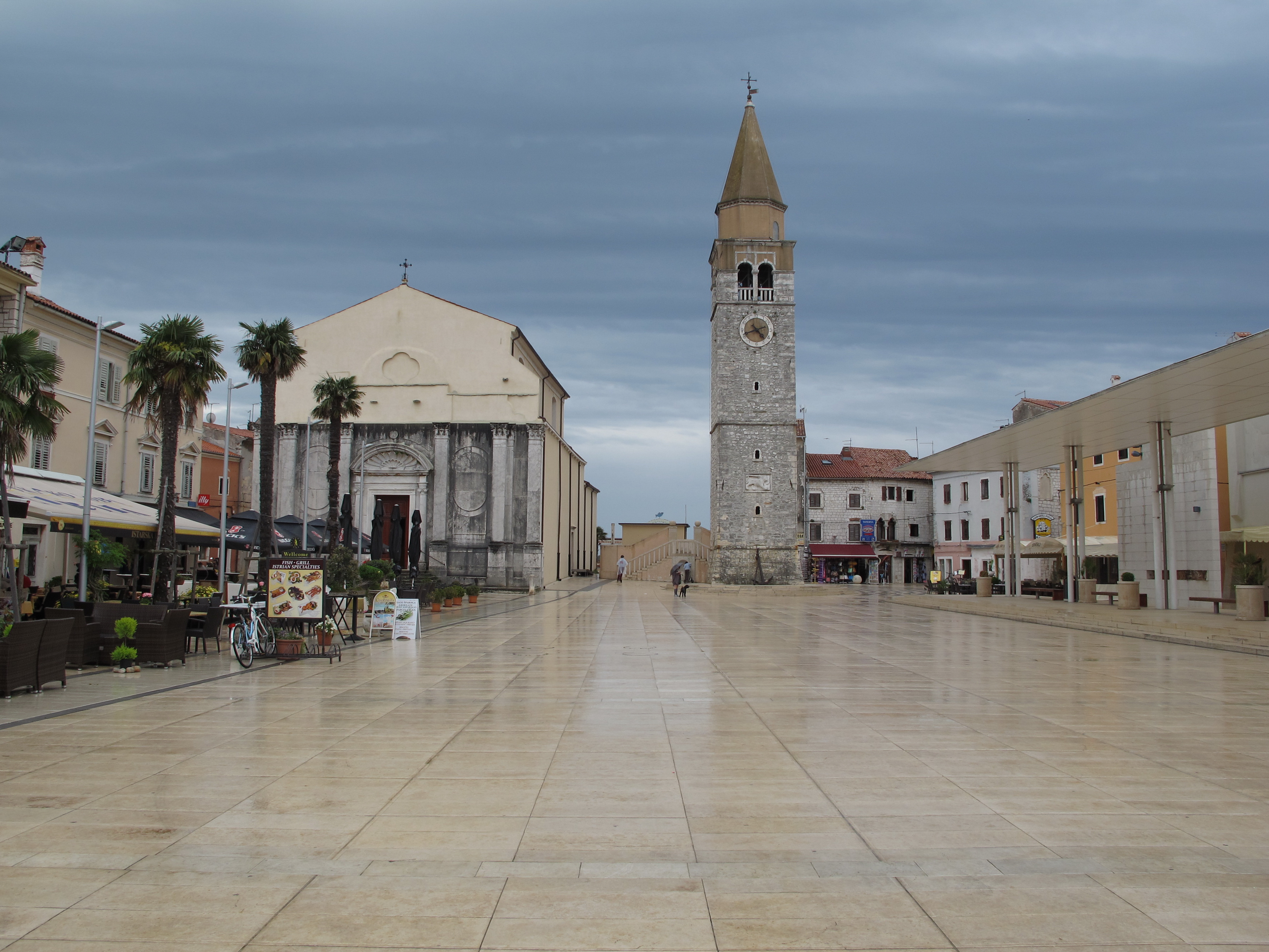 Churchtower Umag